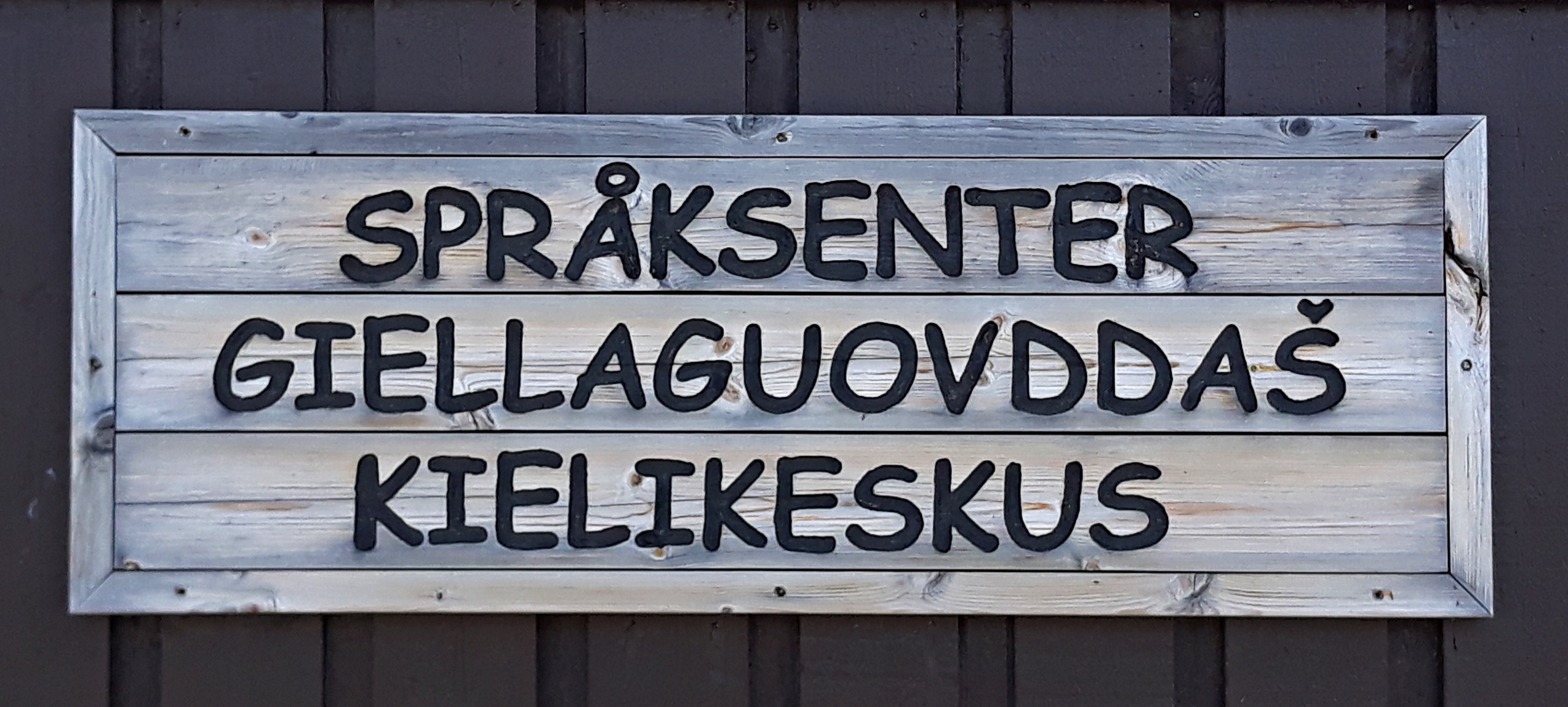 Omasvuotna-Storfjord-Omasvuono Language Center trilingual sign (Norwegian, Northern Saami, Kven)